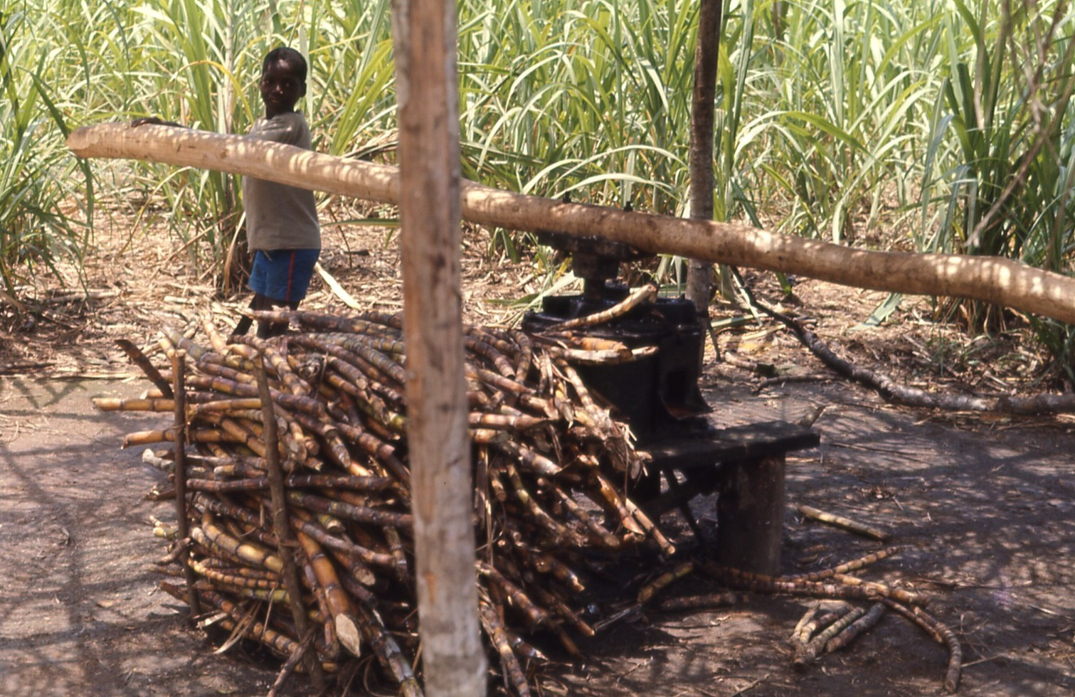 Young boy grinding sugar cane between Flumpa and Kpeyi, Liberia, 1968.